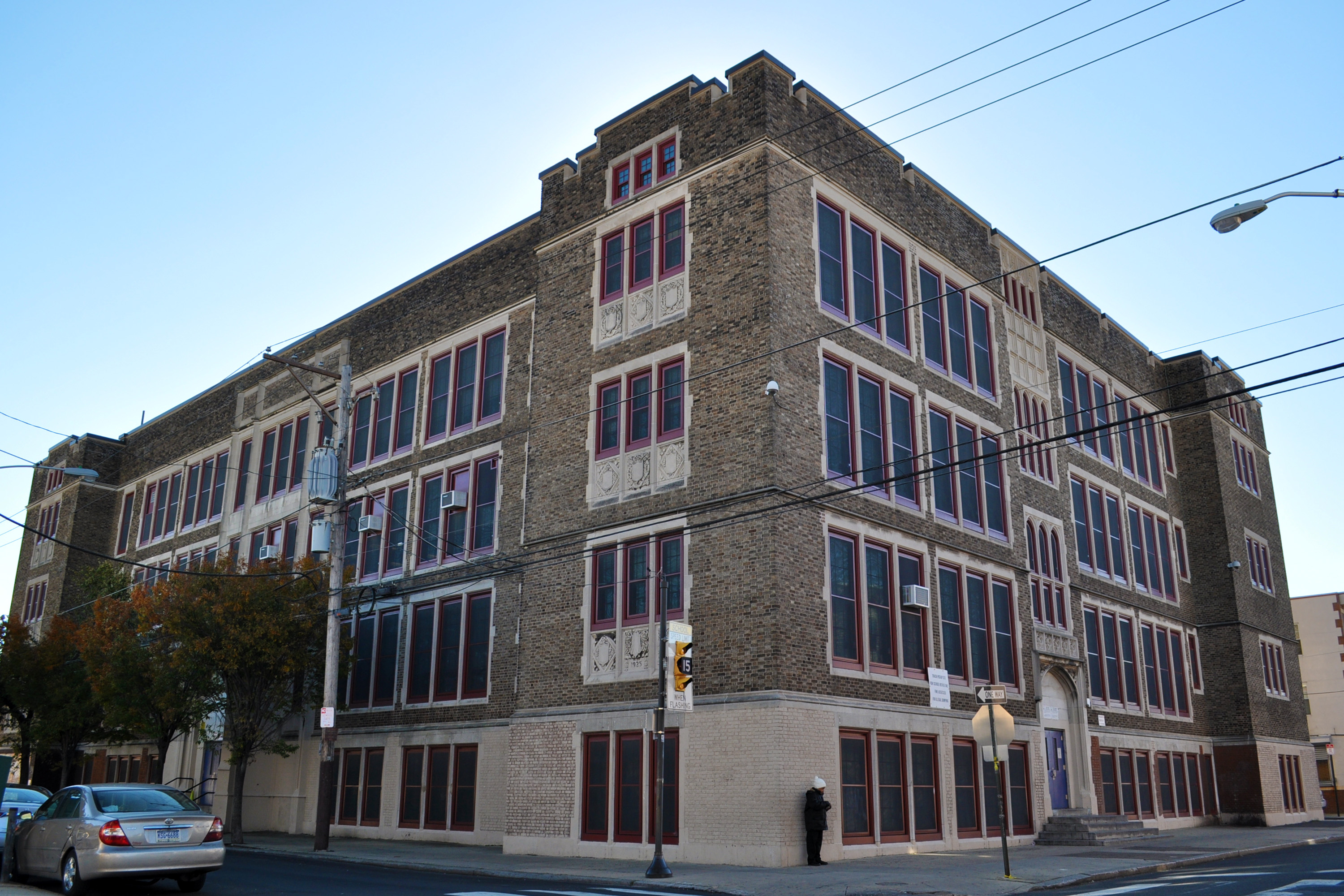 Eliza B Kirkbride School - 1501 S 7th St, Philadelphia, PA 19147